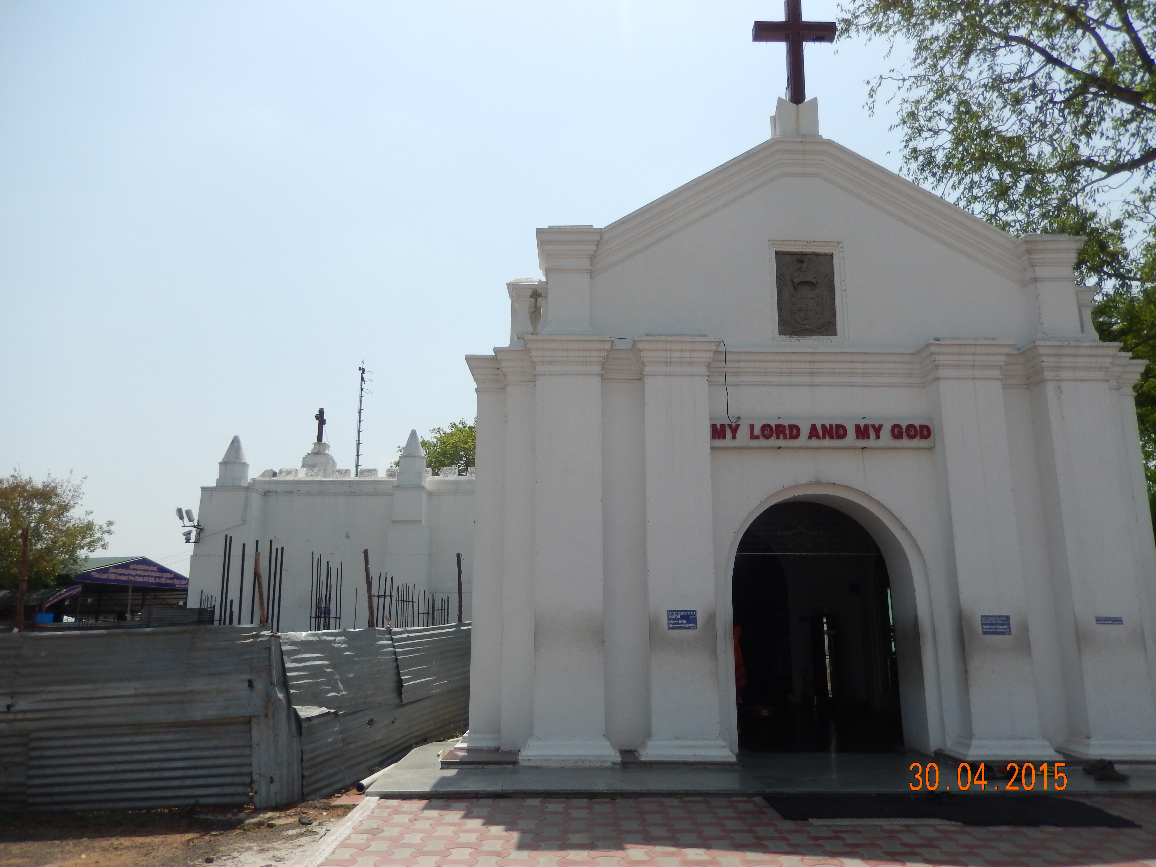 St.Thomas Mount Church